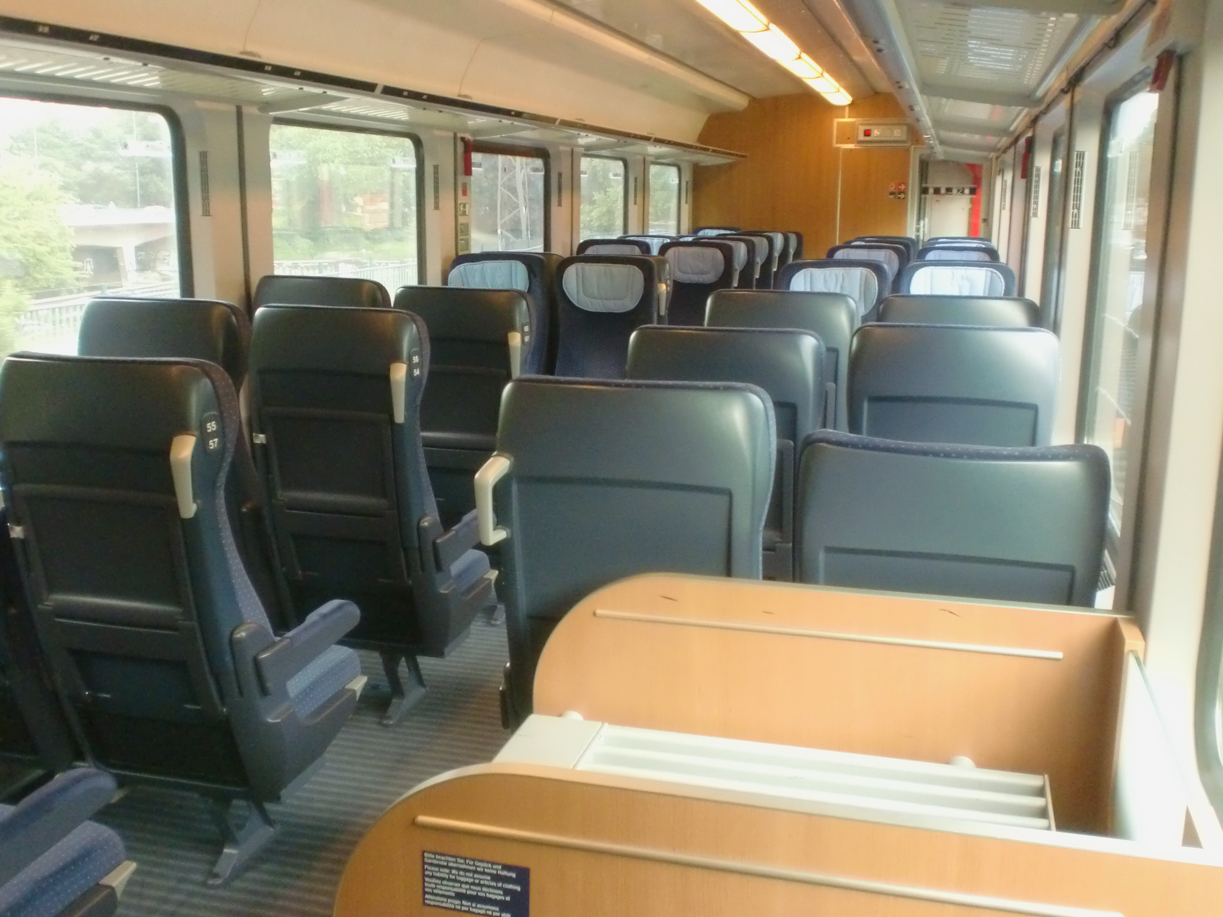 Refburbished interior of a 2nd class at a Bvmsz 186.9 Intercity coach (open coach area)